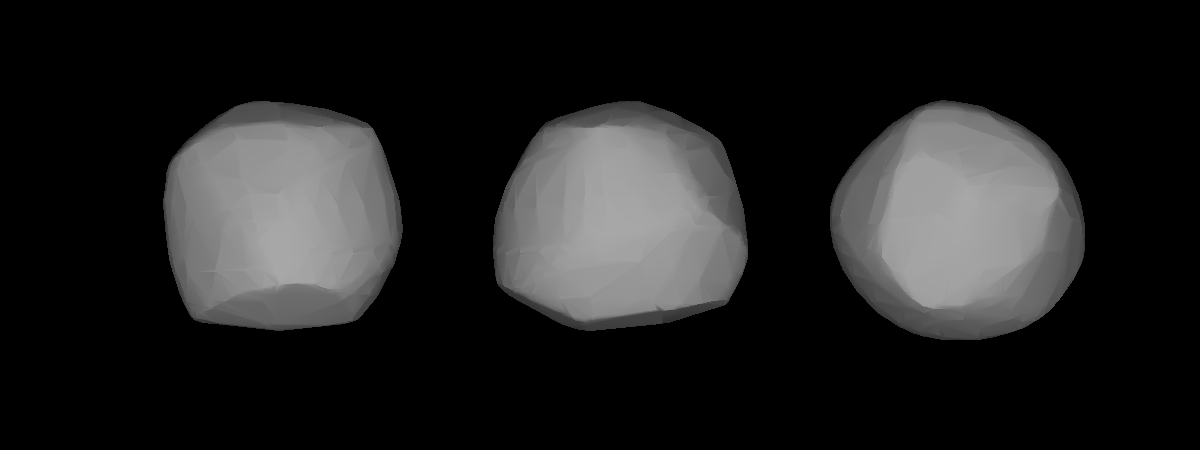 Three-dimensional model of 31 Euphrosyne created based on light-curve.